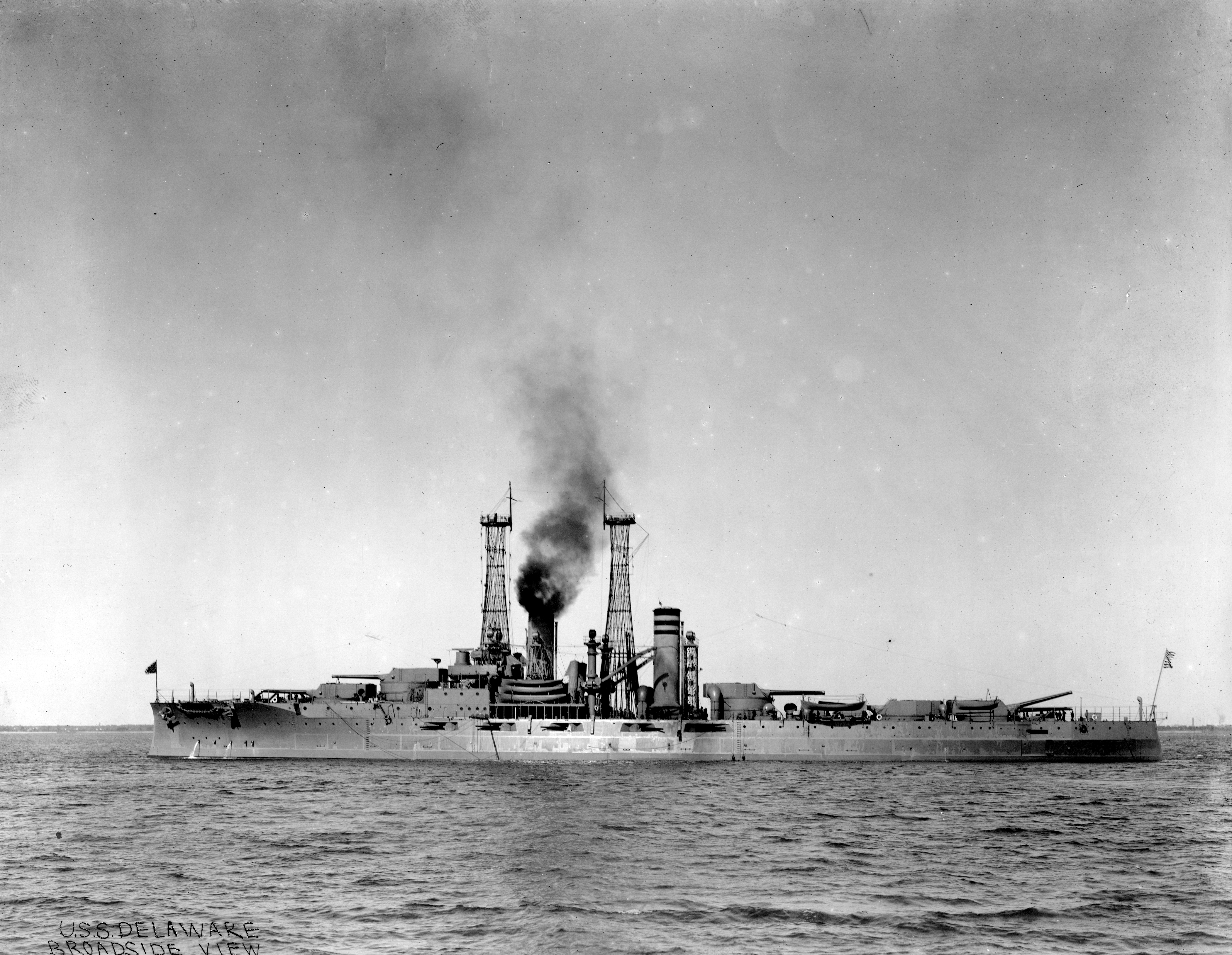 Photographed circa 1911. Note that the 12/45 guns of her after turret are at different elevations. U.S. Naval History and Heritage Command Photograph.